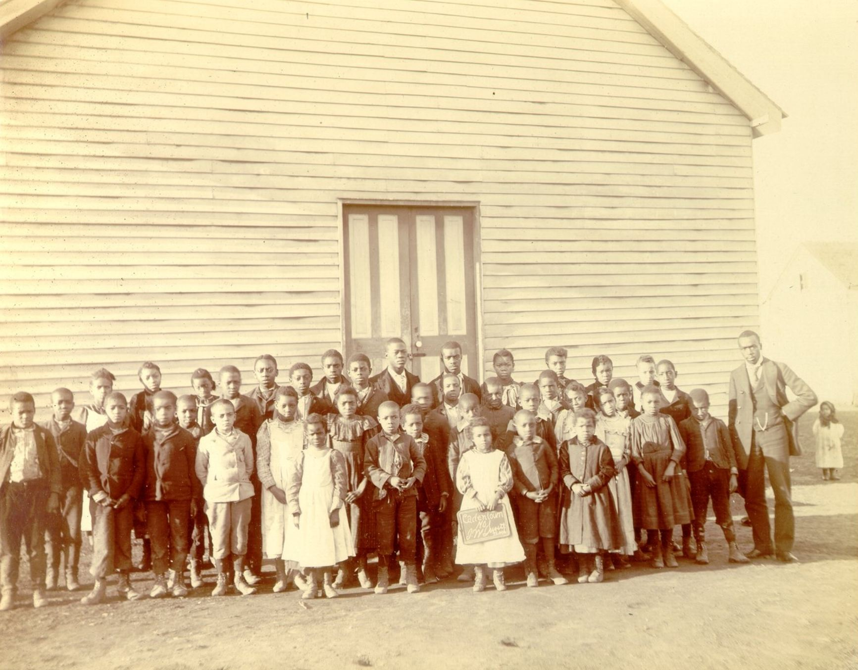 "Cadentown"; Large group of African-American students and teacher stand in front of Cadentown School, a wooden school house painted white. A young girl holds a slate board that reads "Caden town No1 JW Durett (?) Teacher". Part of Fayette County Schools Photographic Collection,1901, in the Kentucky Digital Library.